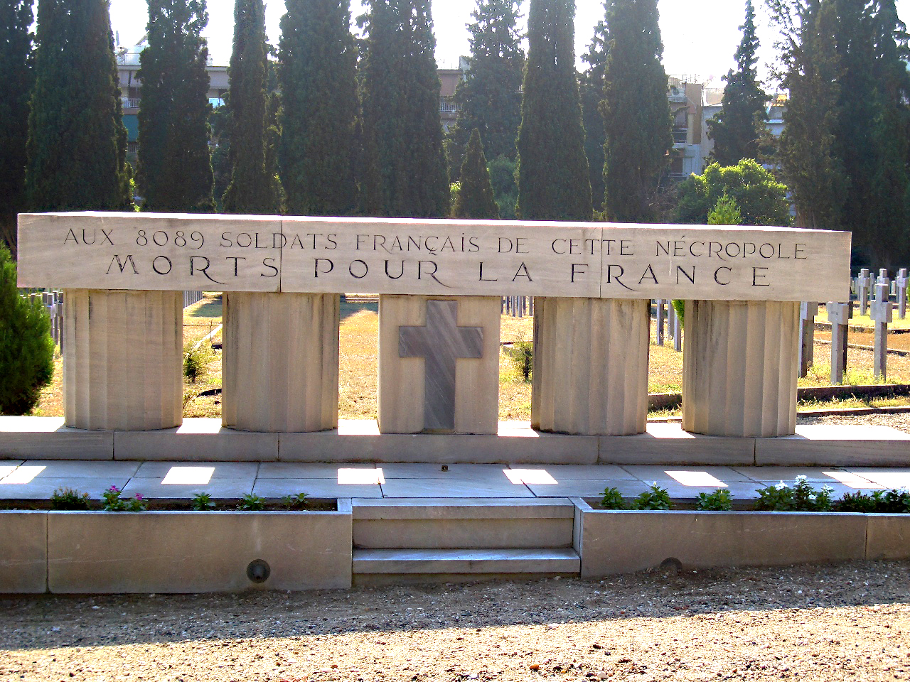 Allied Memorial Park of Zeitenlik in Salonica.